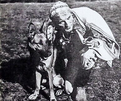 Photograph of "Beneva" (later dog star "Thunder") with actor Charles de Rochefort in 1923 film The Law of the Lawless; image published in Exhibitors Herald, March 3, 1923, p. 43.